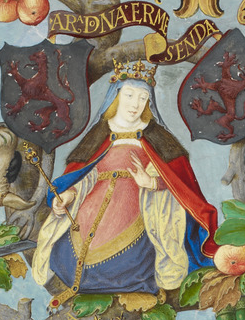 Ermesinda, daughter of King Pelagius of Asturias and, later, queen consort of Asturias by her marriage to Alfonso I.